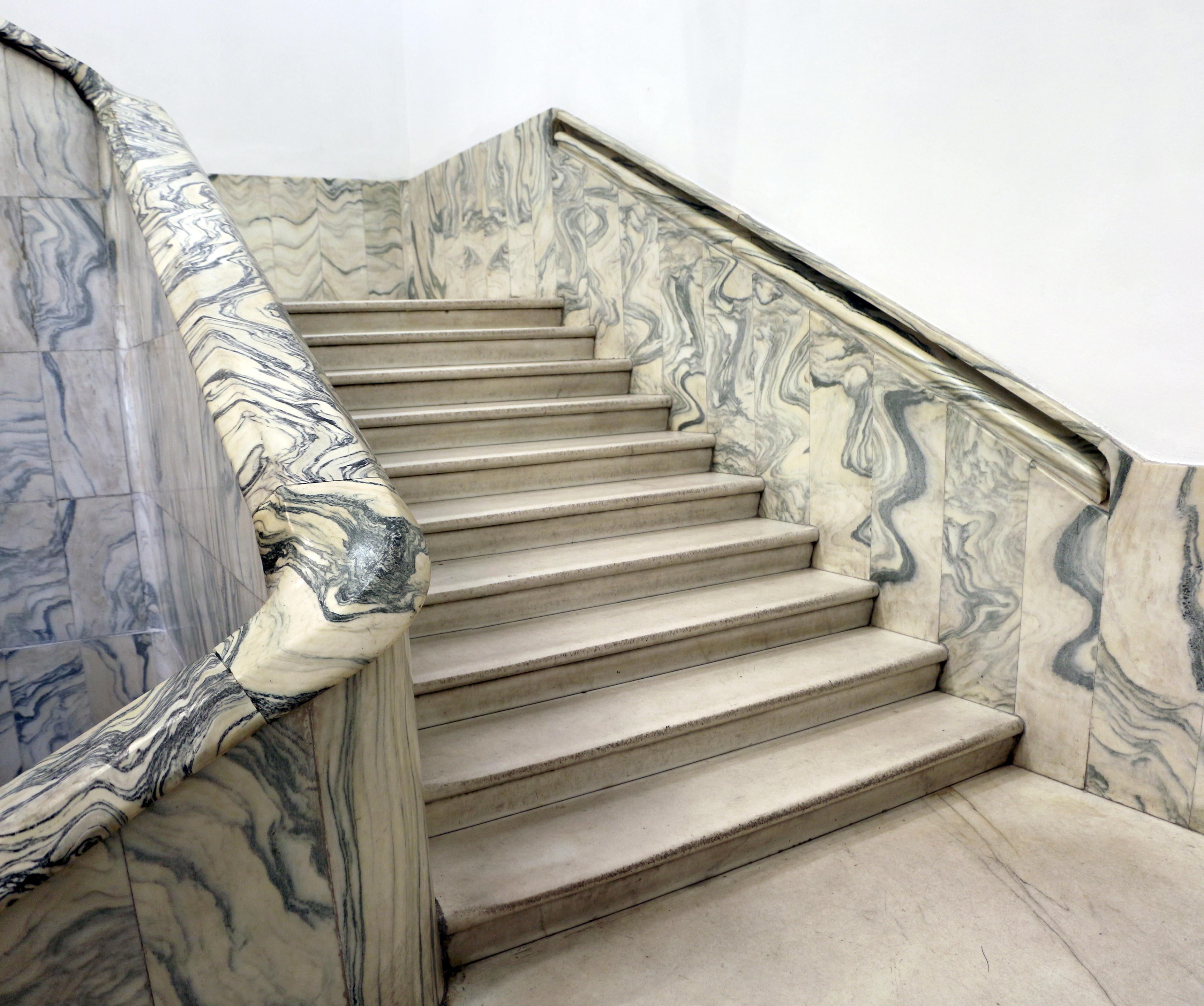 Palazzina Reale di Santa Maria Novella